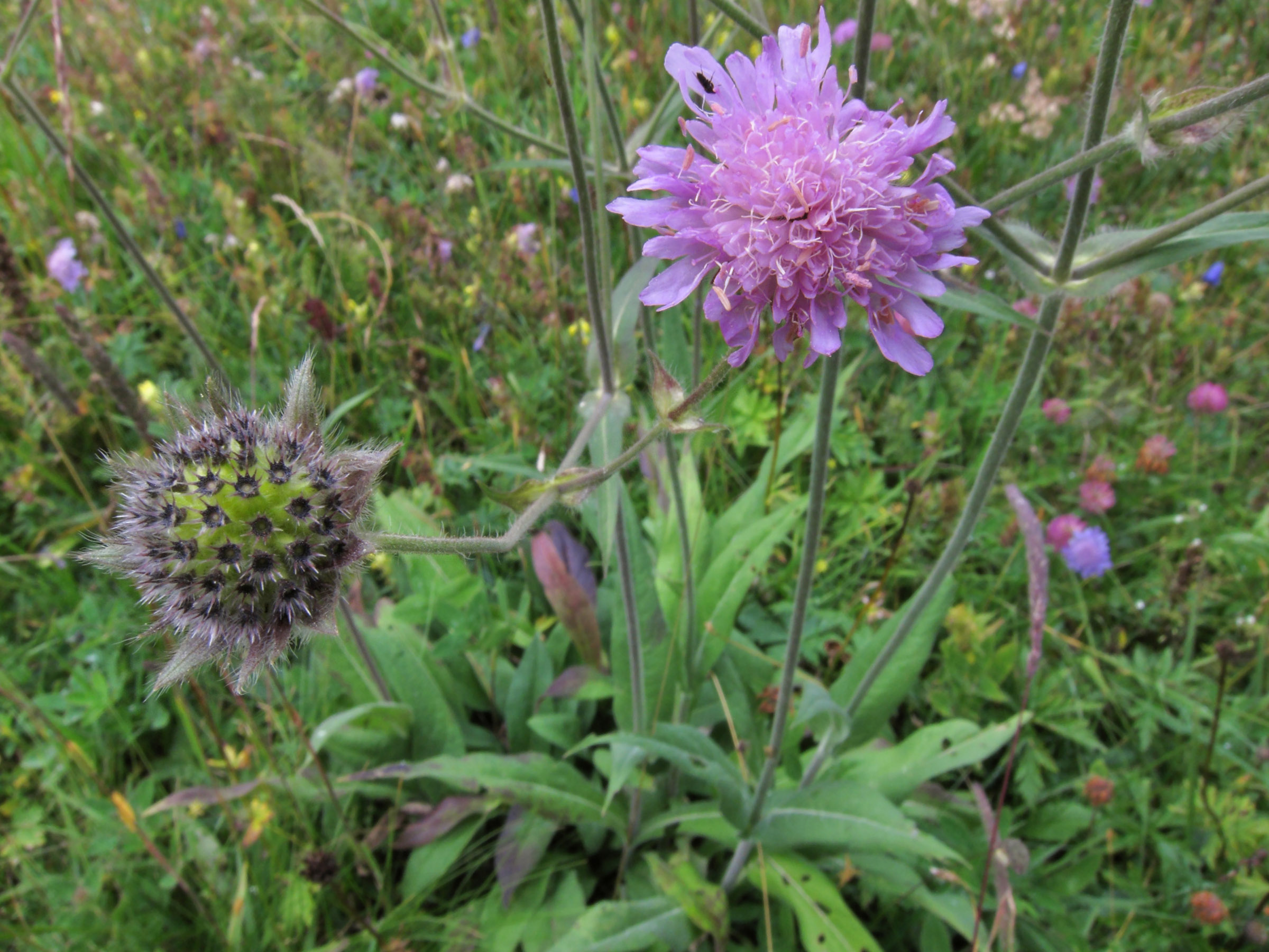 Knautia longifolia. Location: Rasthaus Schöneck, Großglockner Hochalpenstraße, approx. 1950 m A.S.L.